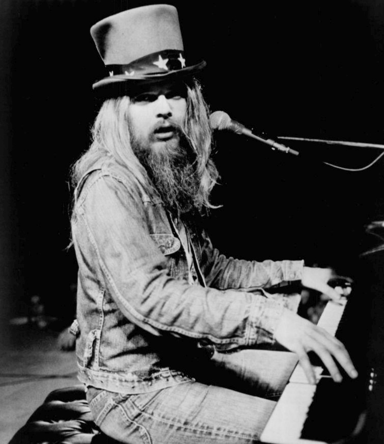 Photo of Leon Russell performing.